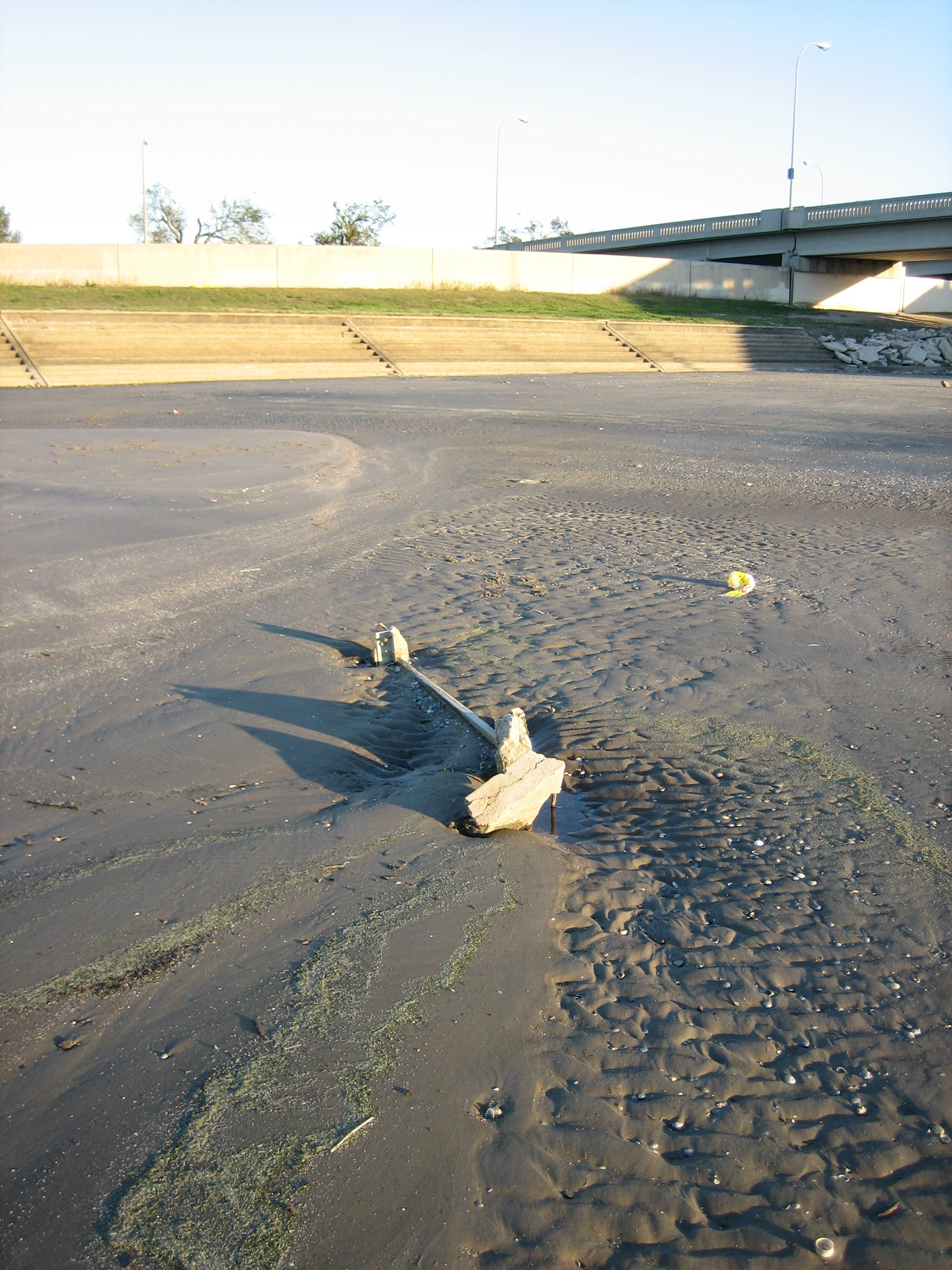 New Orleans: Bayou St. John; silt in mouth at low tide; bits of ruins of old structures at mouth